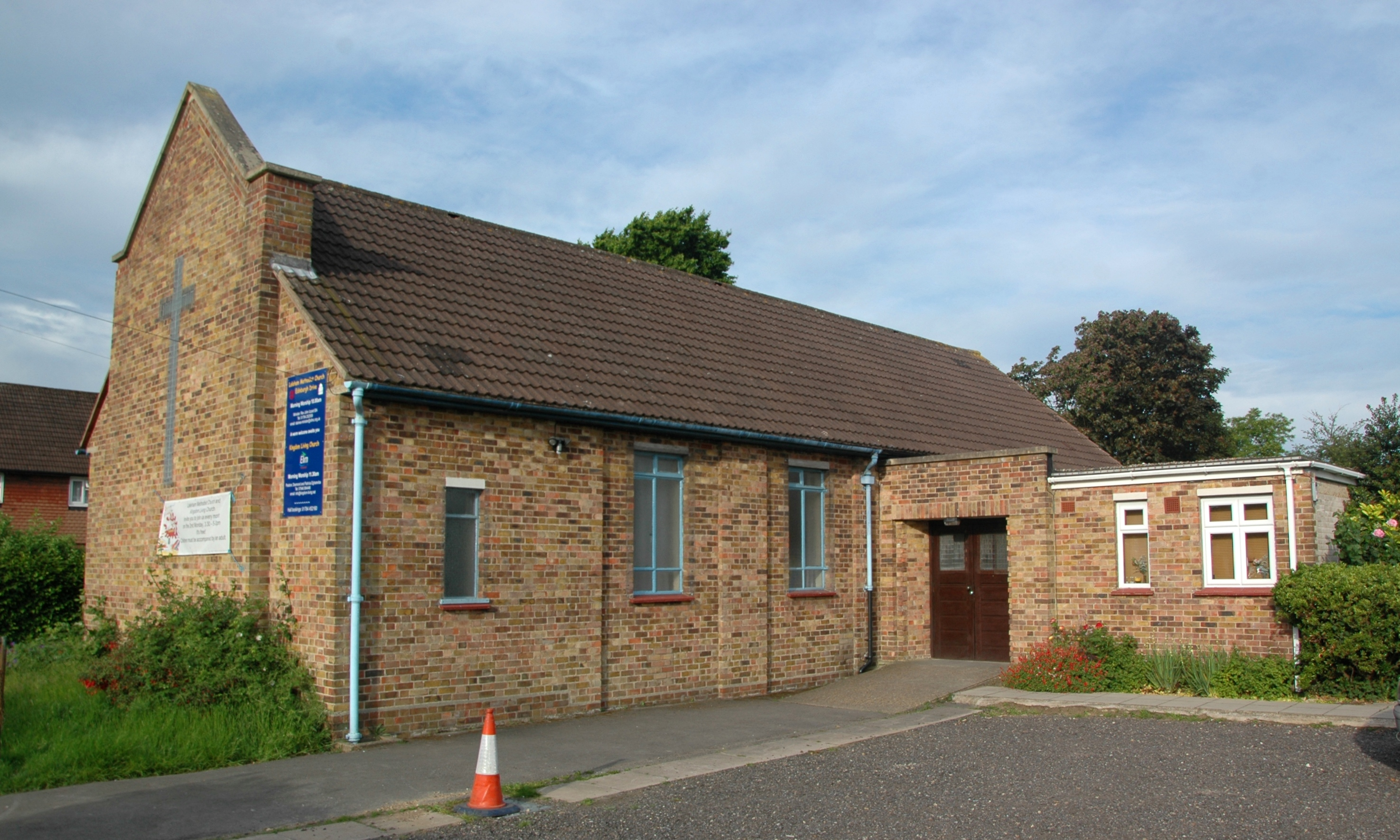 Methodist Church, Edinburgh Drive, Laleham, Middlesex: view from the northeast